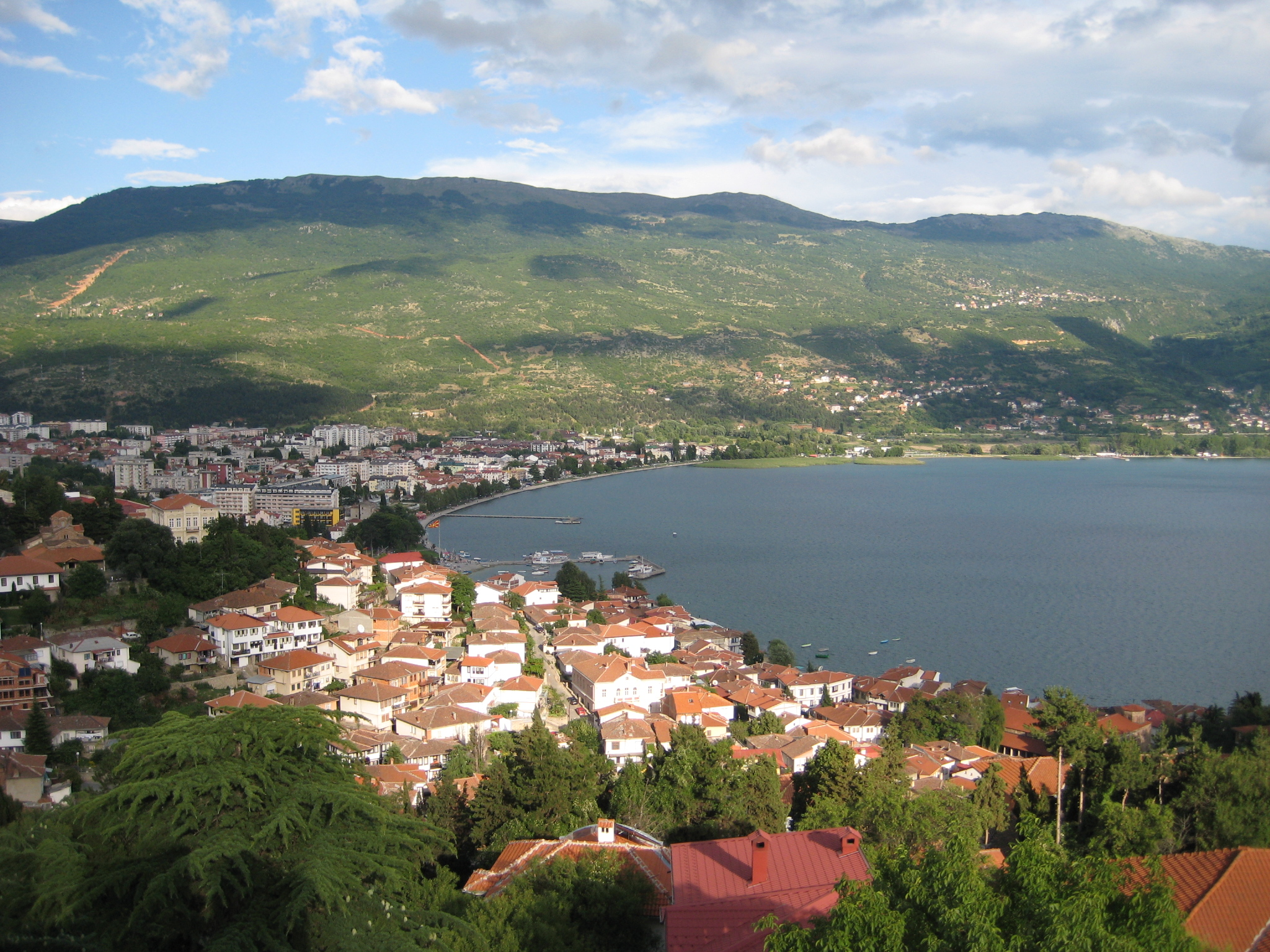 Ohrid, Republic of Macedonia